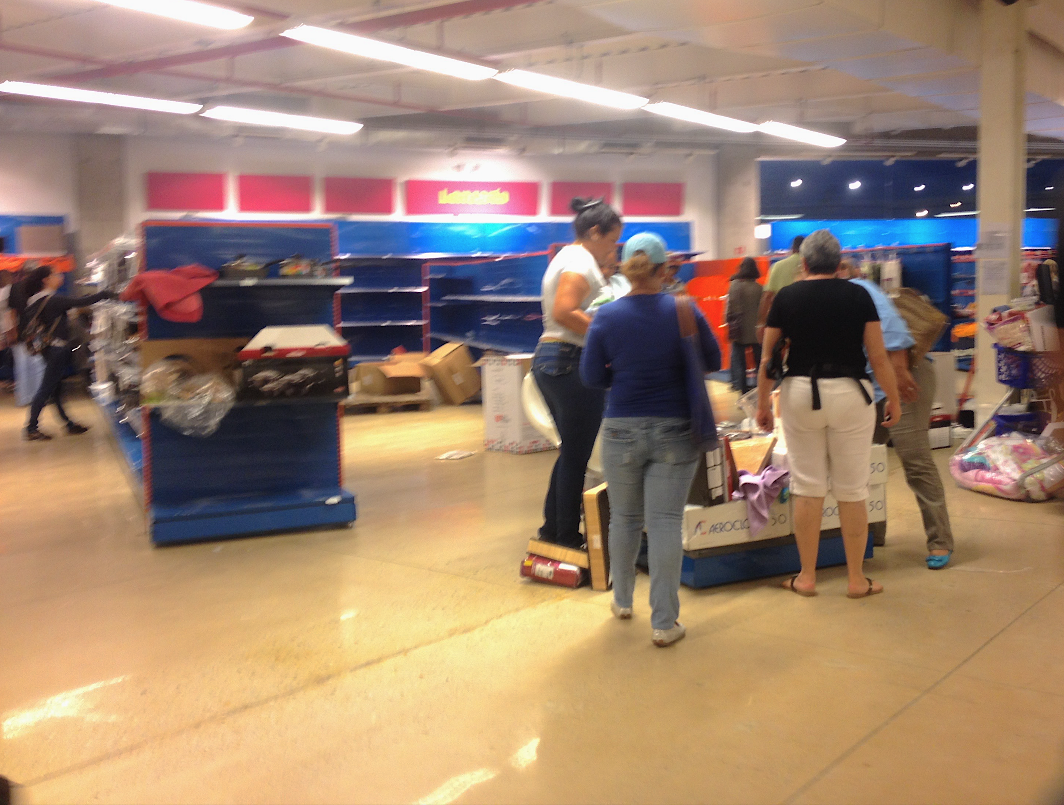 People snatching for items in a Venezuelan store during the Dakazo.